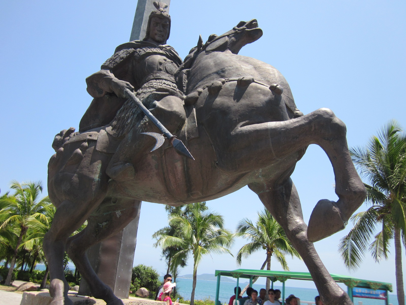 Tianya Haijiao